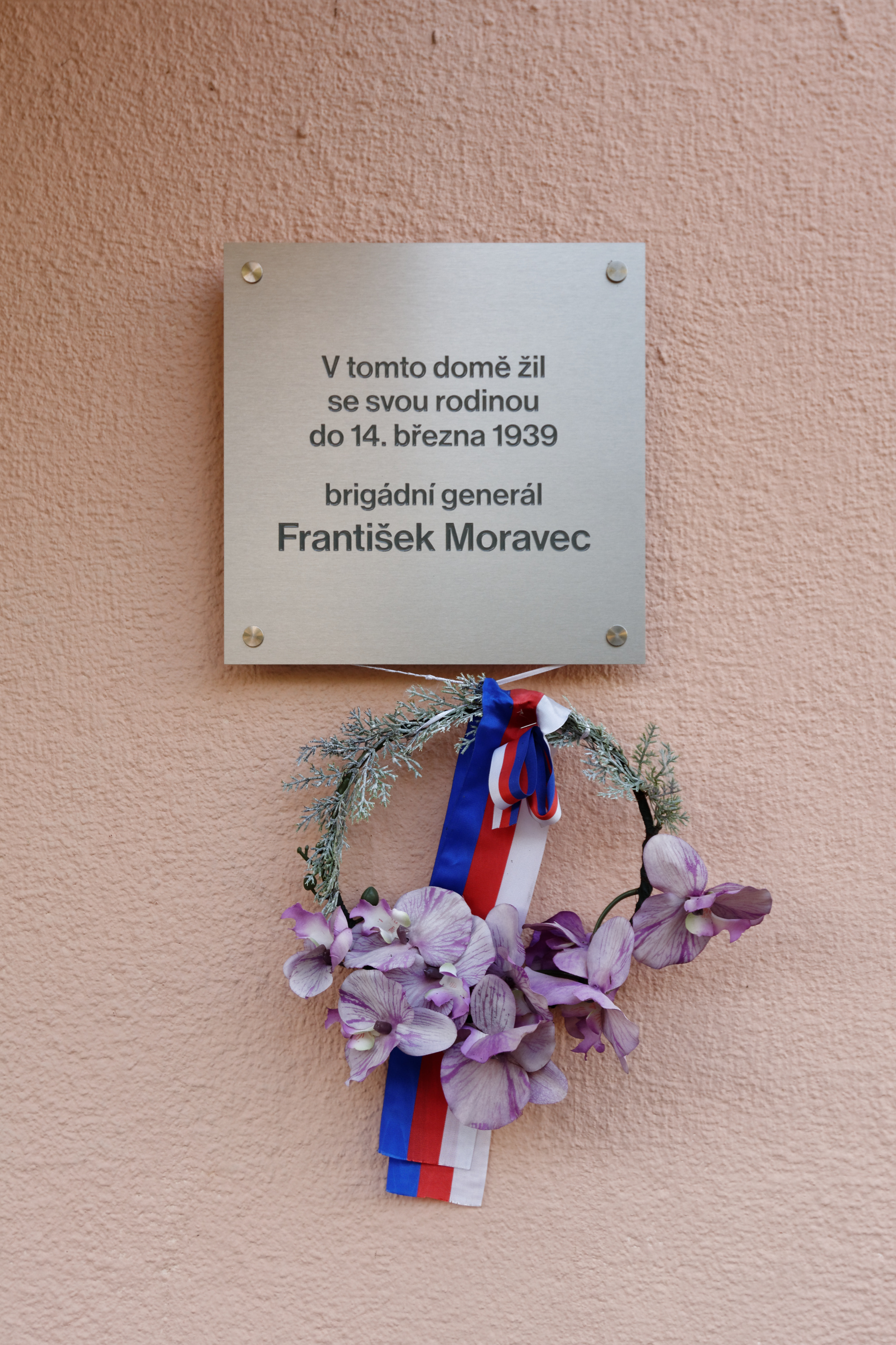 Commemorative plaque to General František Moravec in Prague 6.